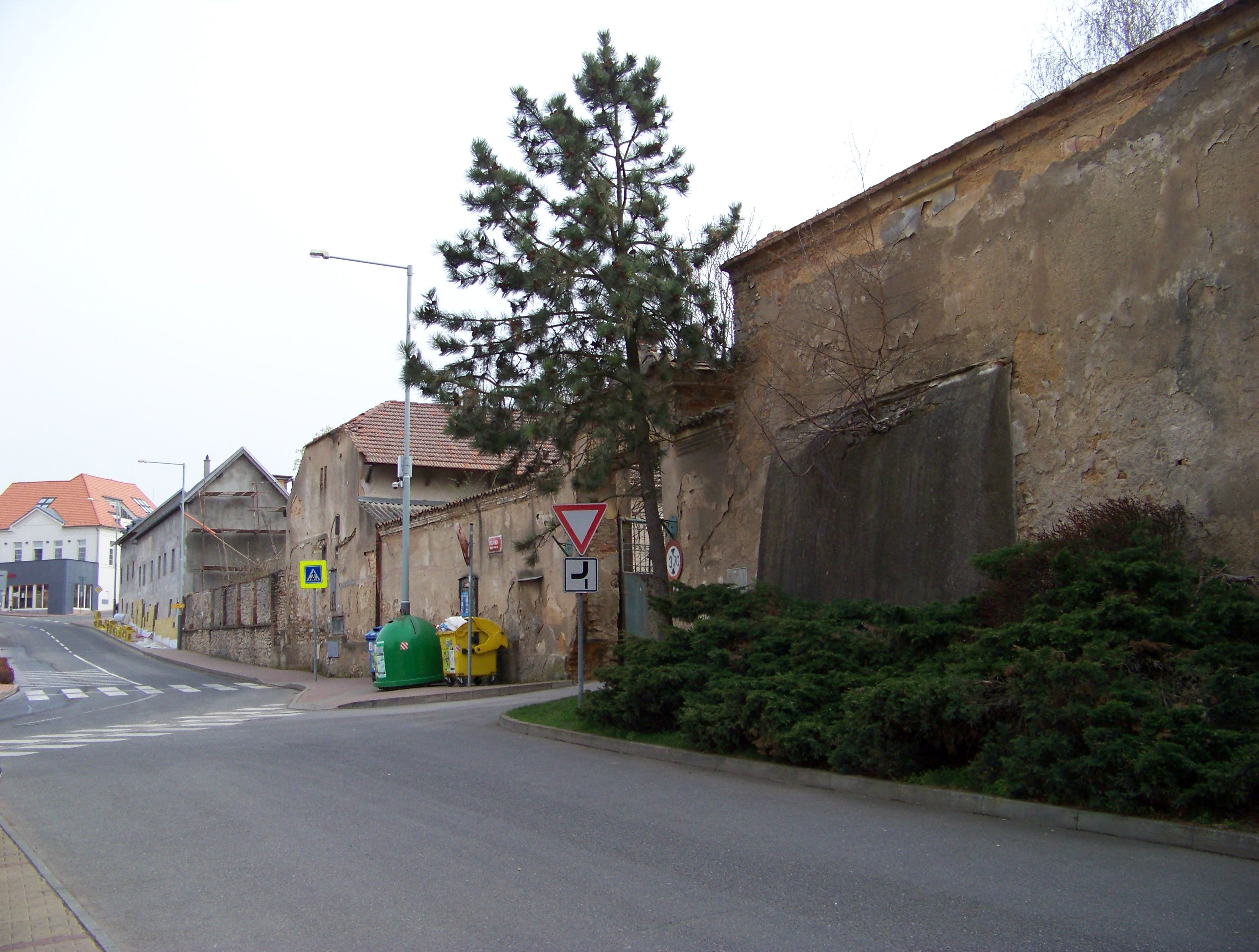 Prague-Lochkov, Czech Republic. Za ovčínem 1, Ke Slivenci 56, 11, 48, 36. - Google Maps - Google Earth